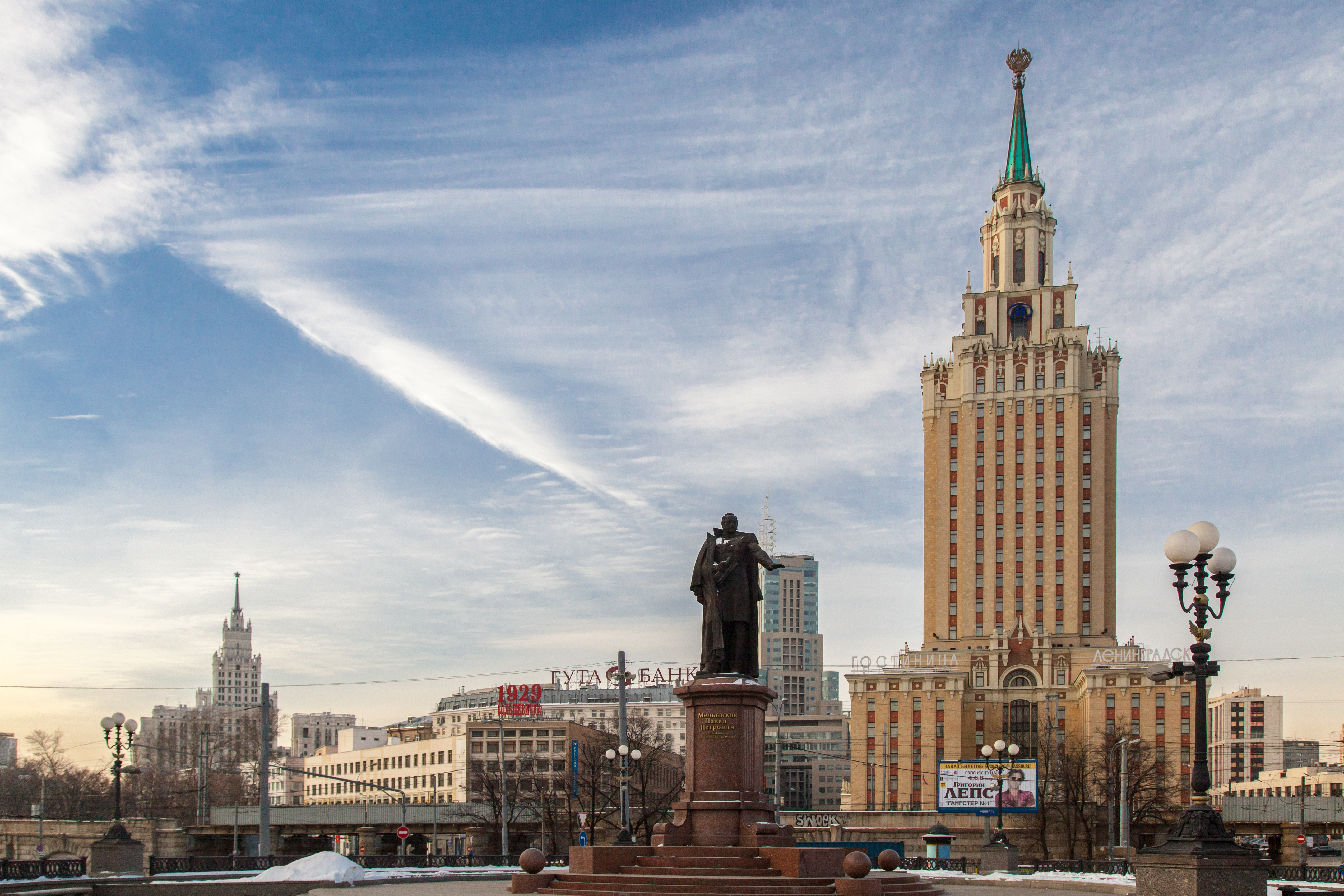 Komsomolskaya Square, Leningradskaya hotel tower on the right - view to city center